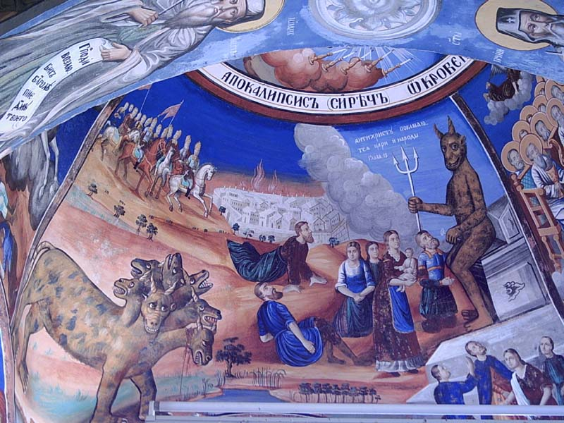 Fresco illustrating the Aocalypse (Book of Revelation) Osogovo Monastery, Macedonia.